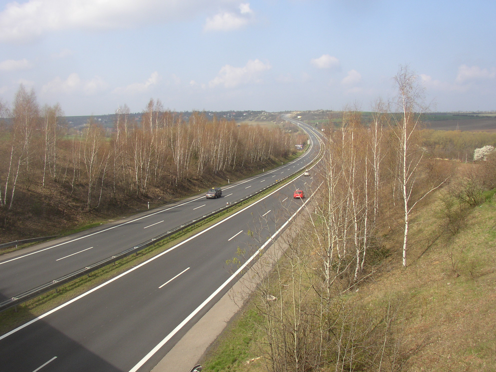 Expressway R7 between Prague and Slaný, Czech Republic. A view from railway bridge of Kralupy nad Vltavou - Kladno line towards northwest. The depicted section of R7 was built in early 1980s and completed in 1984.